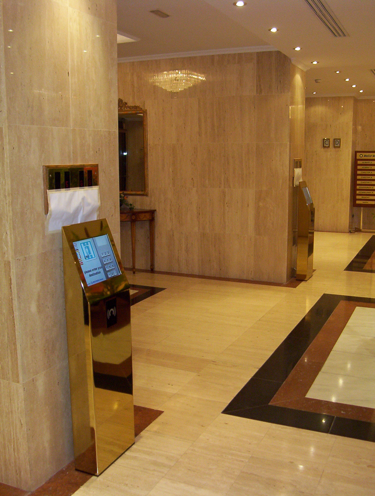 TouchTerminal